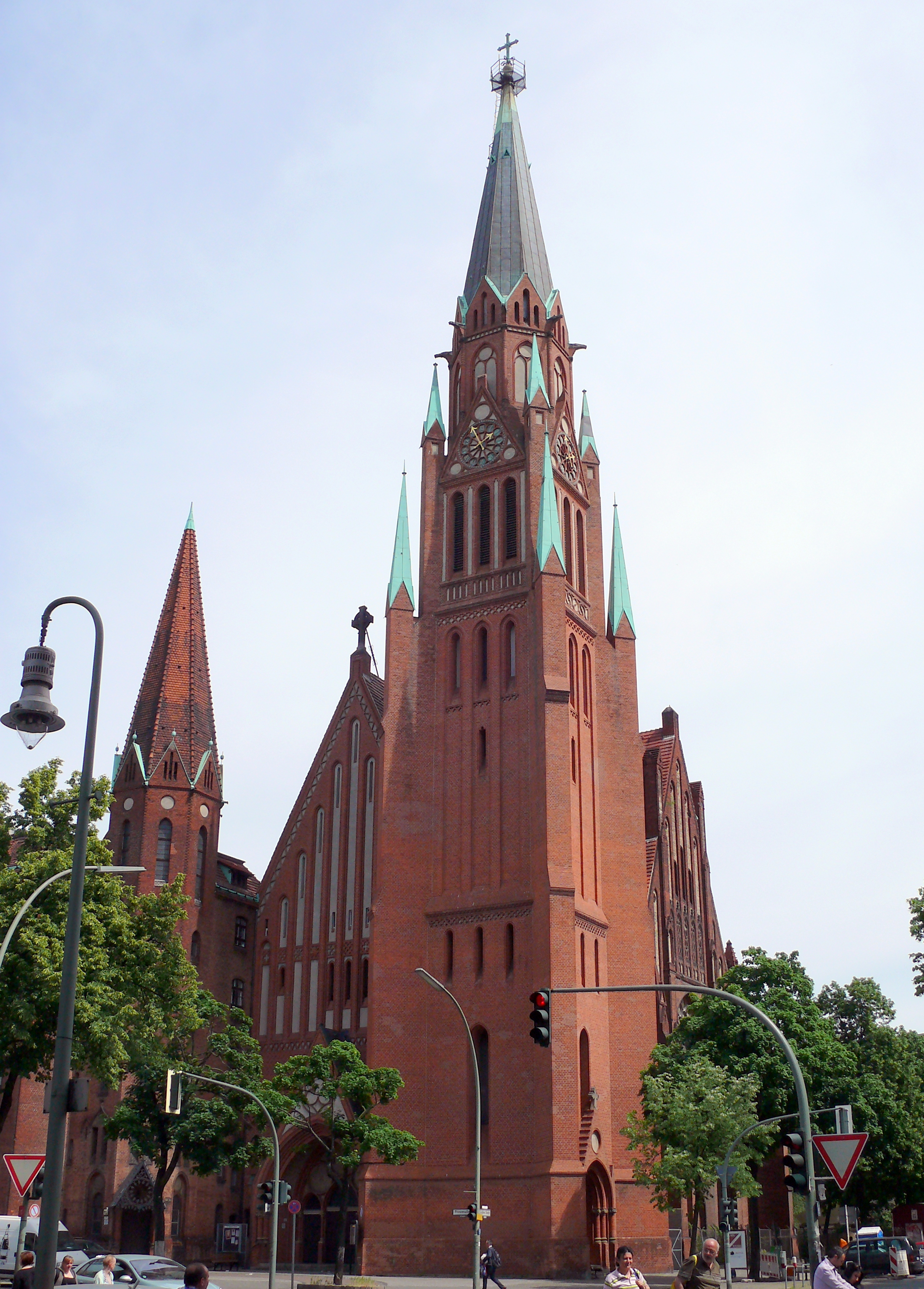 Berlin-Gesundbrunnen Prinzenallee Stephanuskirche